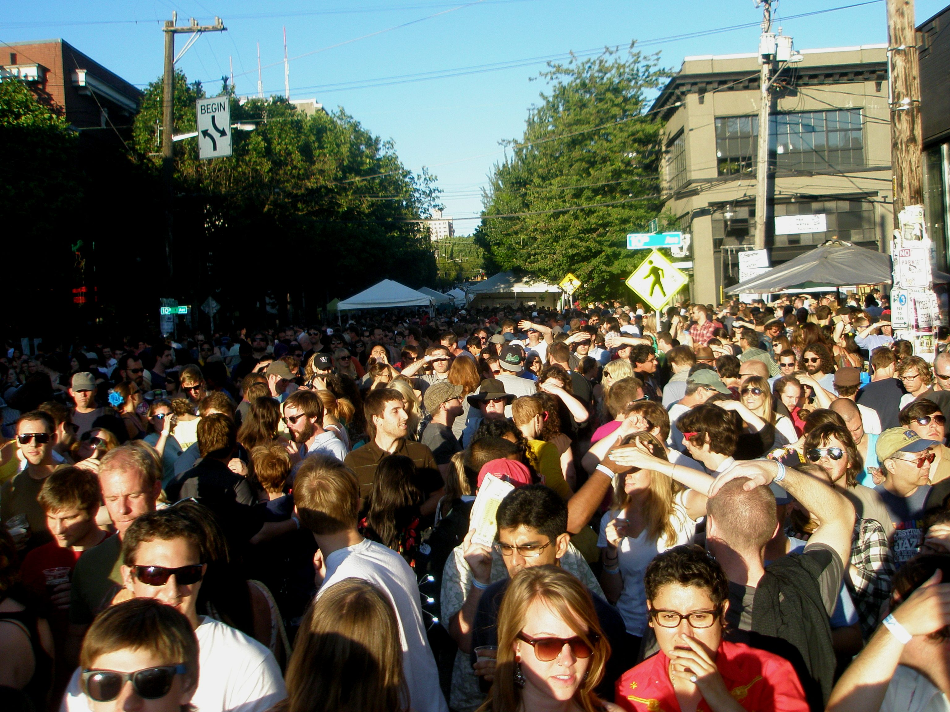 main stage crowd ready to party!